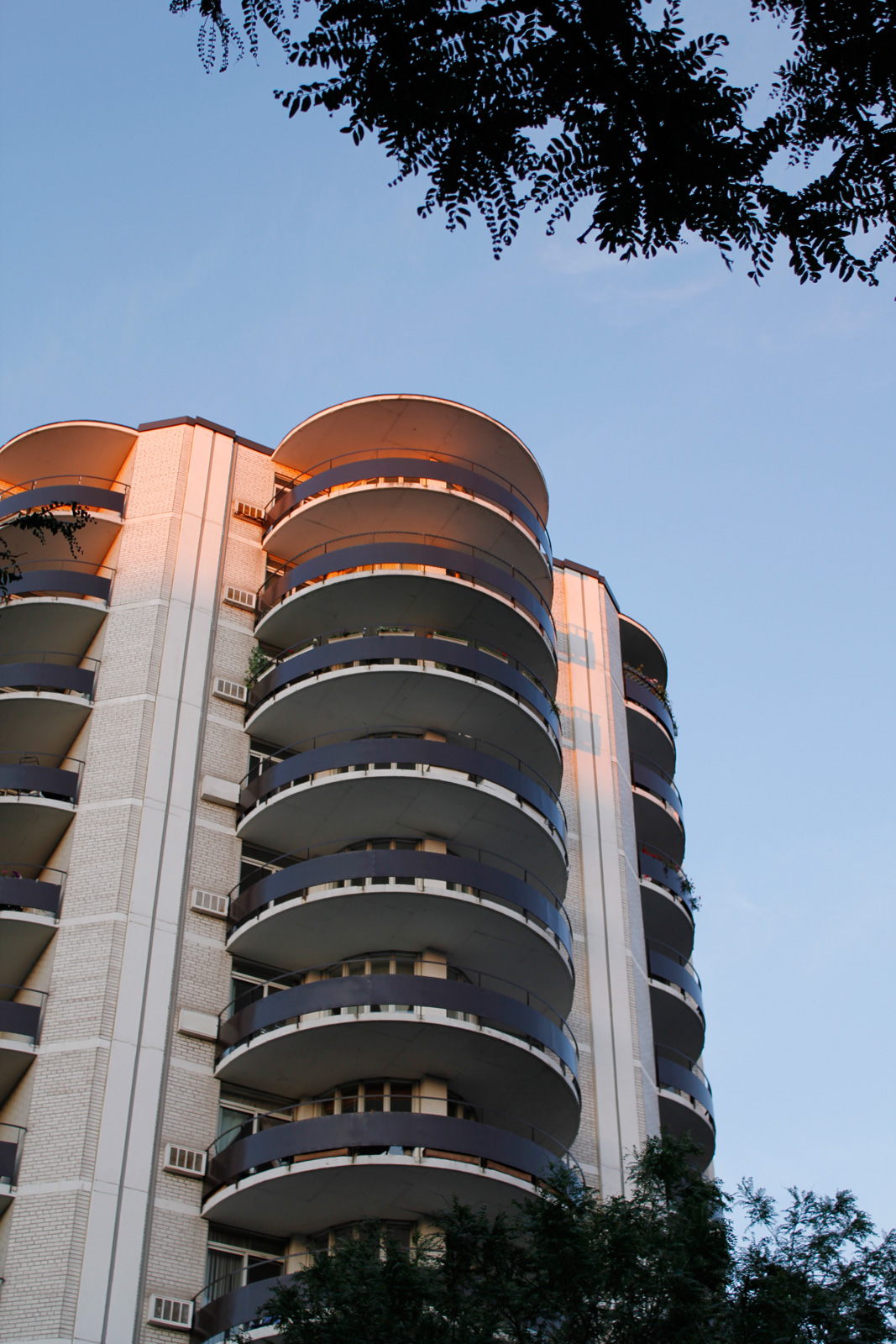 Architect Uno Prii's Brazil Towers at 485 Huron Street in Toronto, Canada (as seen from Huron Street). Photo taken on 3 July 2011 at 8:55PM. Attribute to Arthur Rozumek.